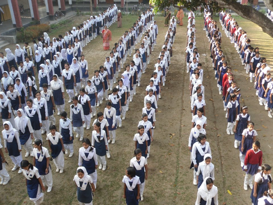 assembly of rus